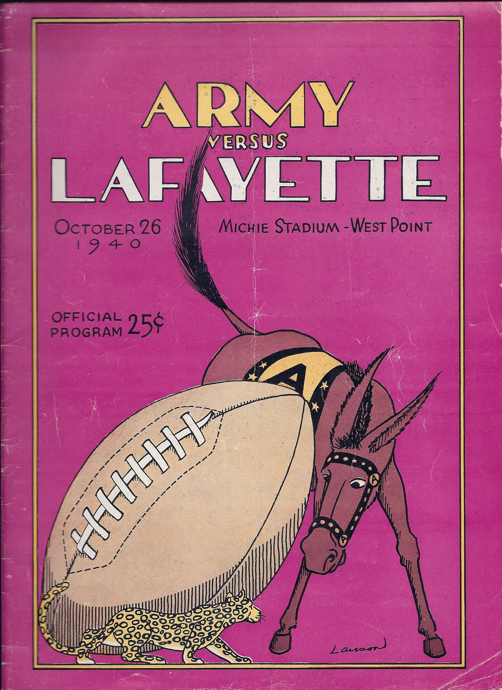 The cover of the October 26, 1940 football game program between Lafayette College and the U.S. Military Academy, West Point, NY.